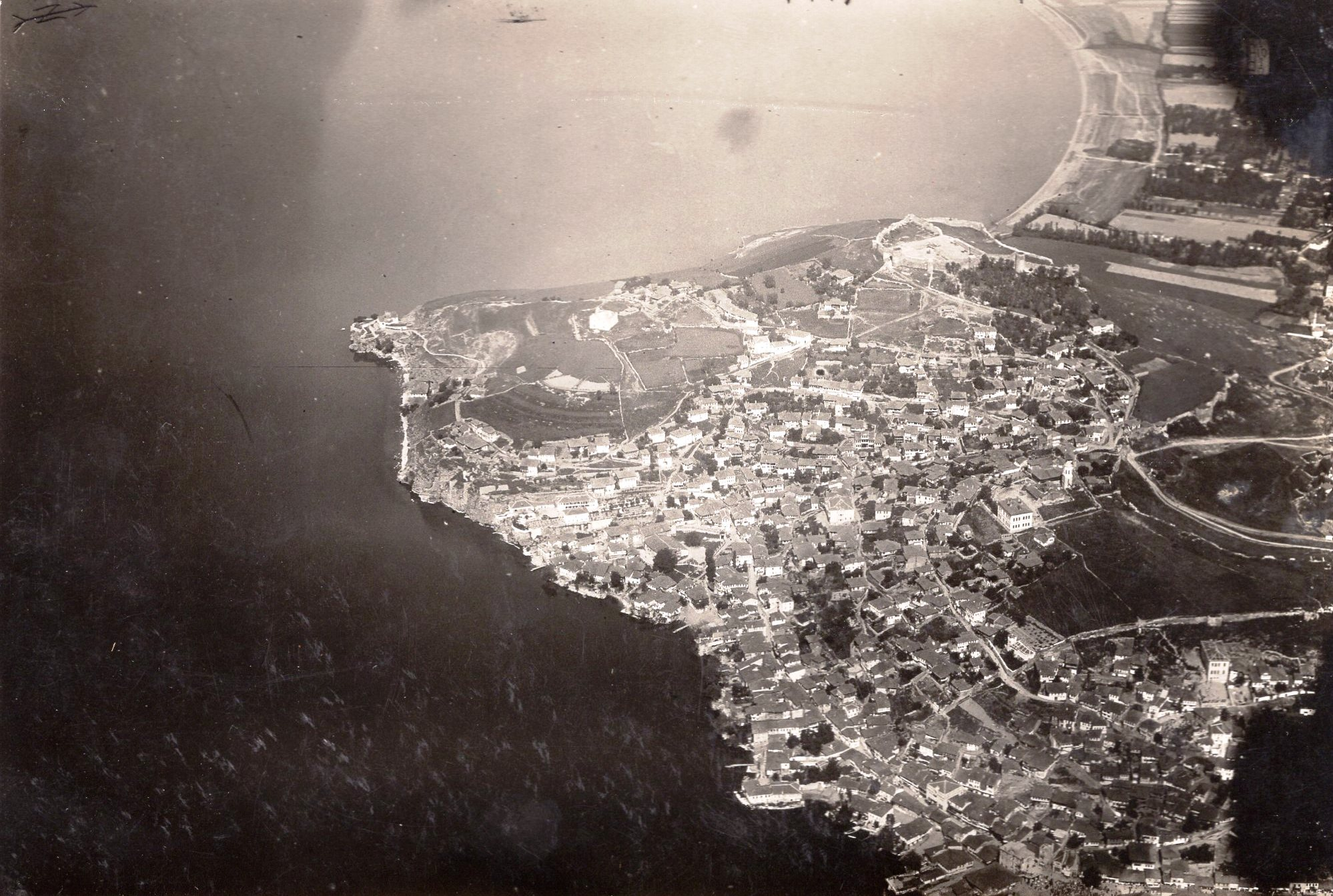 Postcard of Ohrid, photo taken in 1930 This media file is produced by Wikipedian in Residence in Category:Wikipedian in Residence at DARM in 2016.